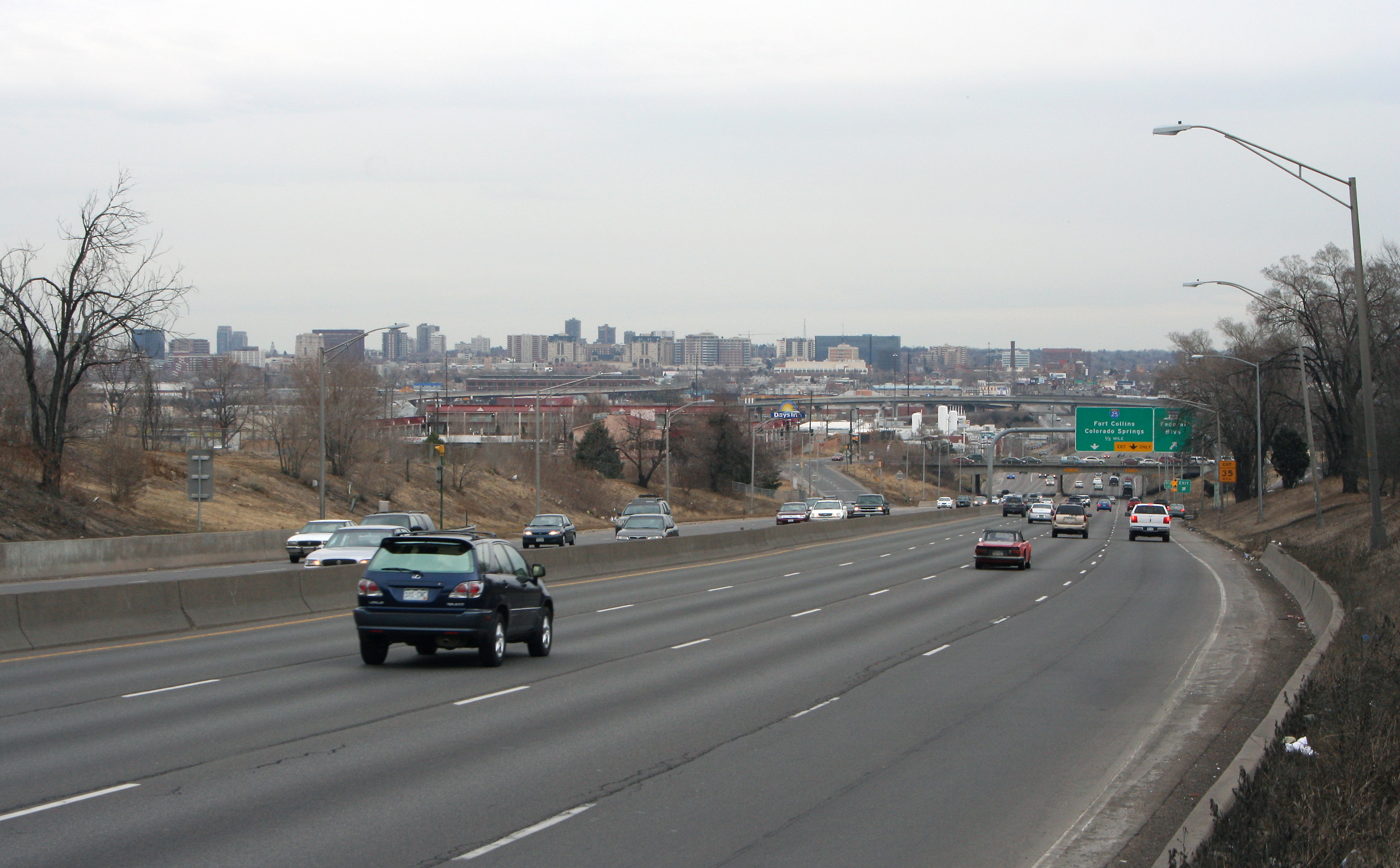 The Sixth Avenue Freeway eastbound near Federal Blvd in Denver, Colorado.